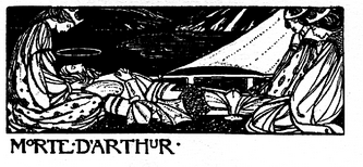 Florence Harrison's black and white illustration for Tennyson's Guinevere and Other Poems.